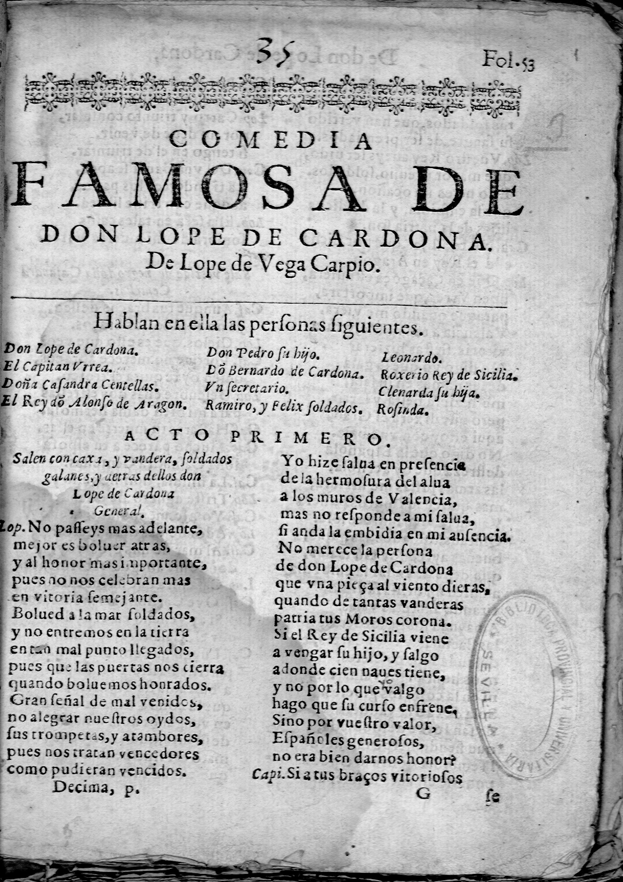 First page of the "Famous Comedy of don López de Cardona", by playwright Lope de Vega y Carpio. 1803 edition facsimile.